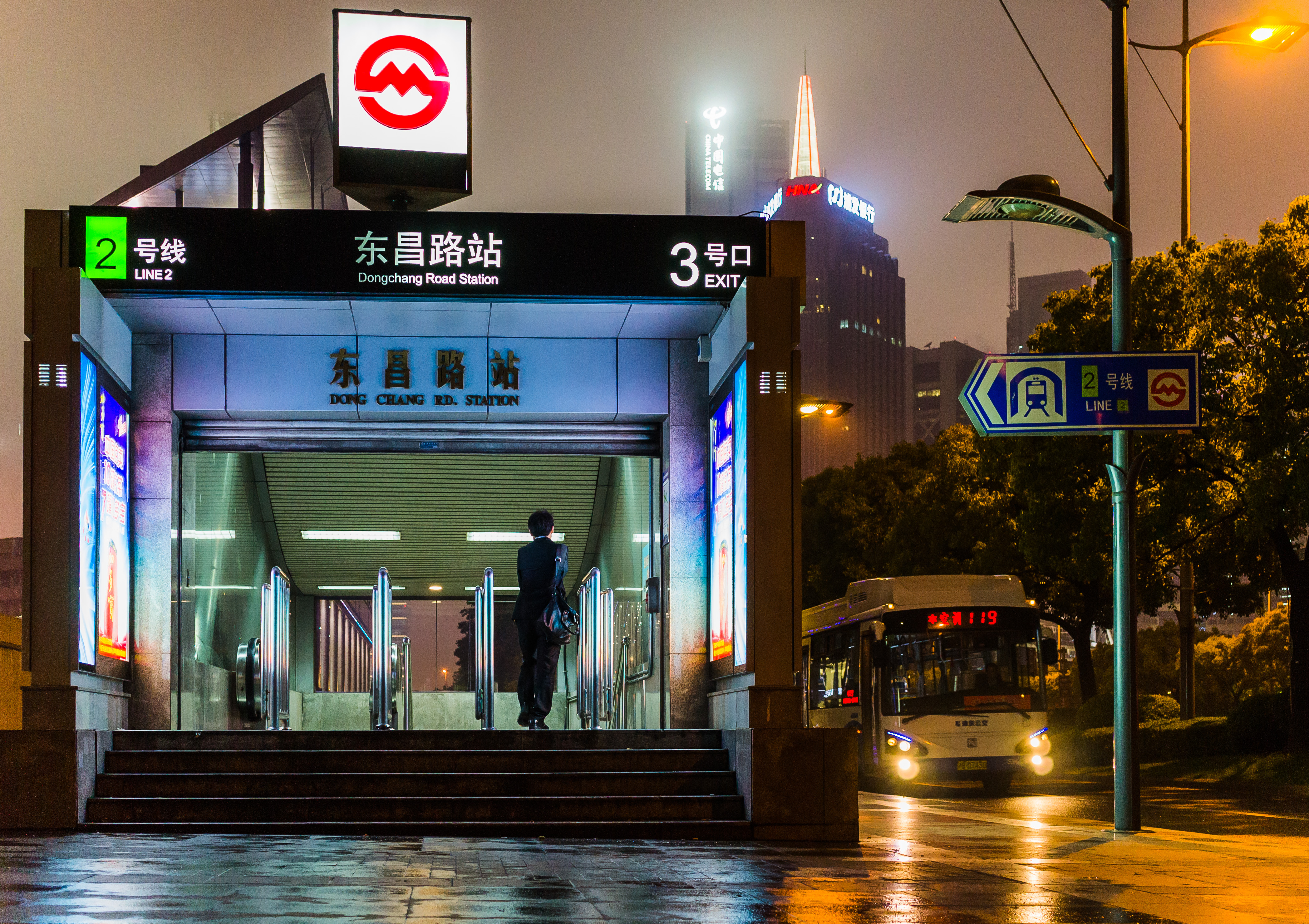 Dongchang Road Station